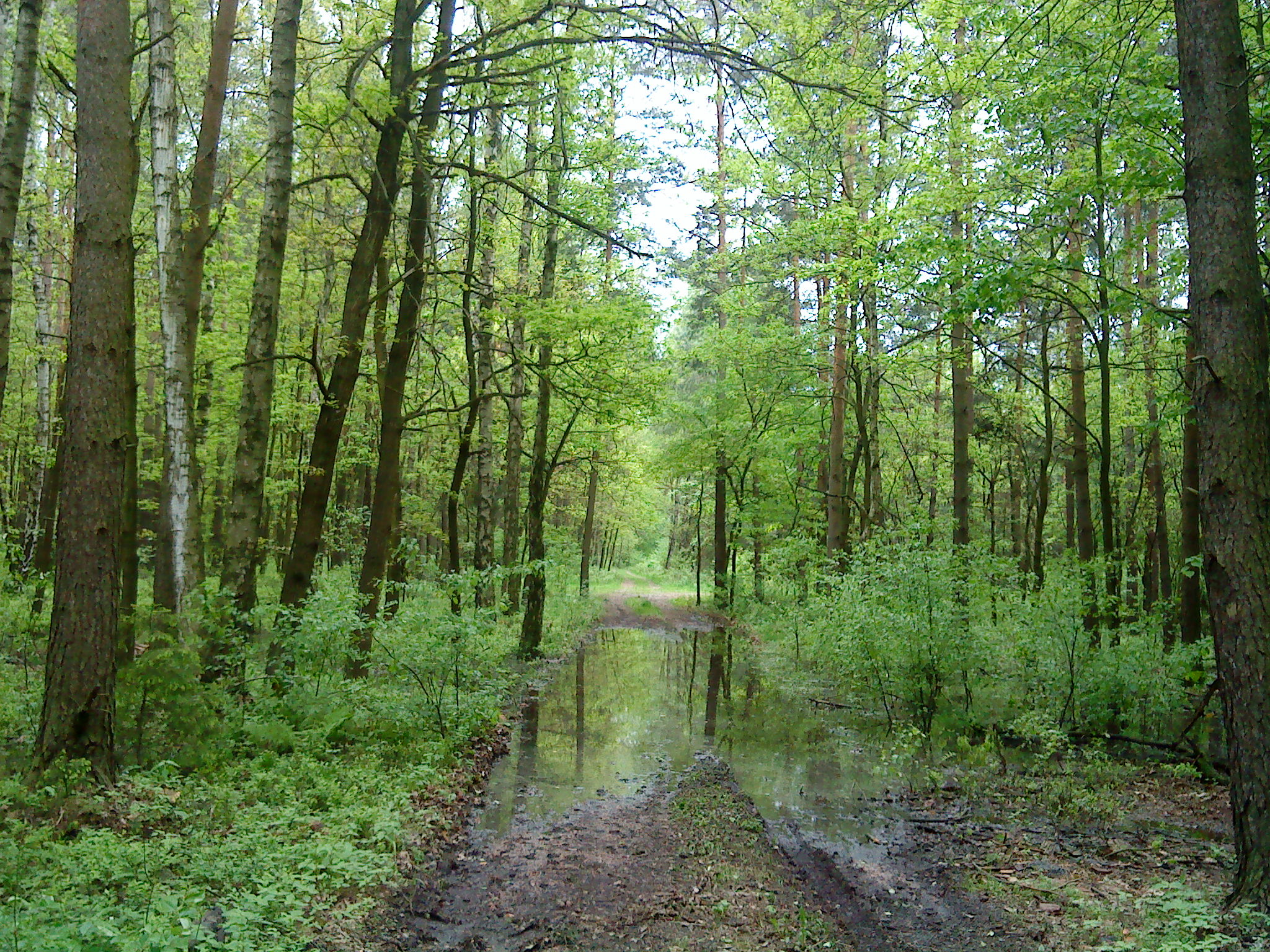 forest path next to Brynek